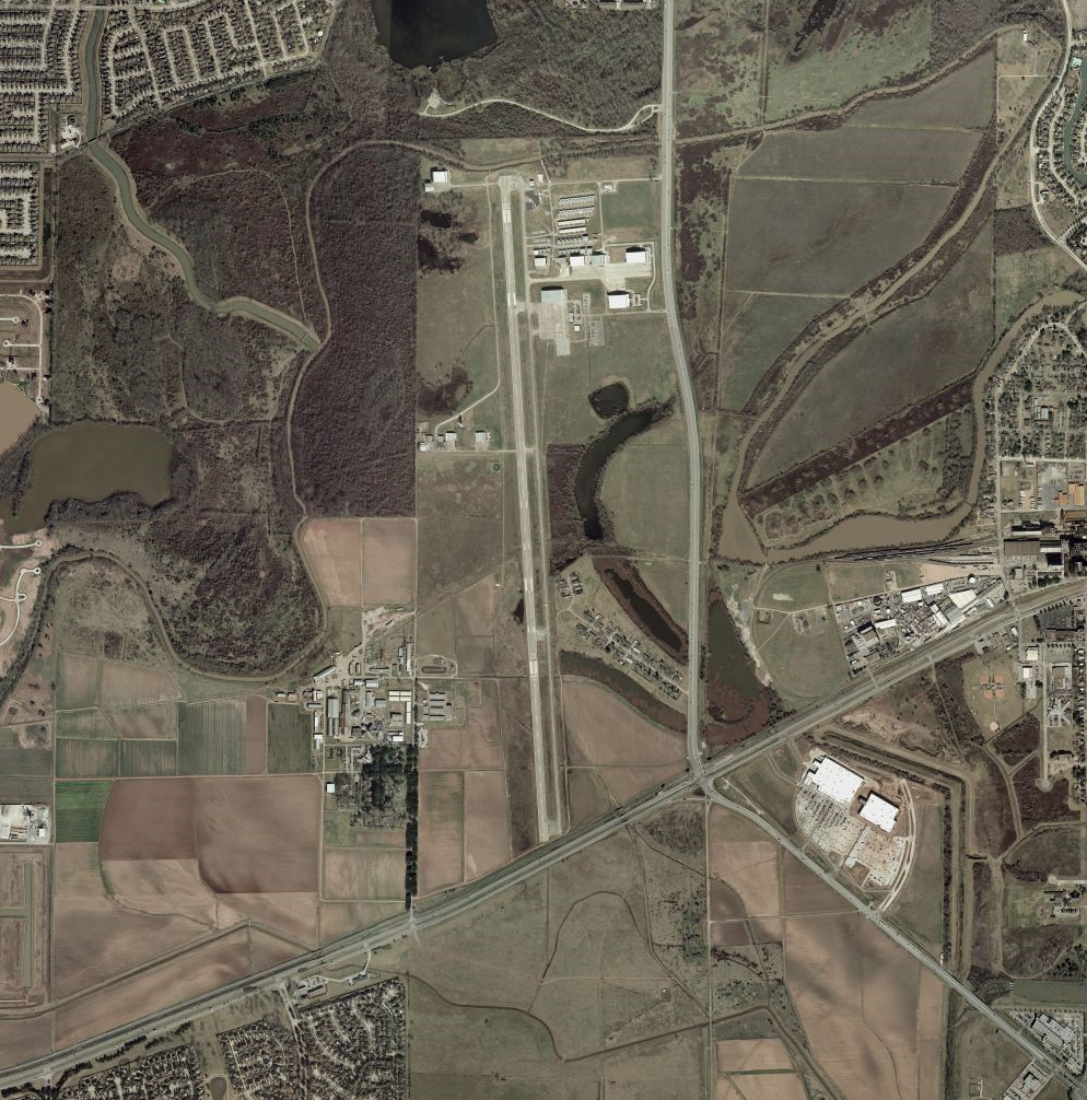 USGS orthophoto of the Central Unit and Sugar Land Regional Airport in Texas